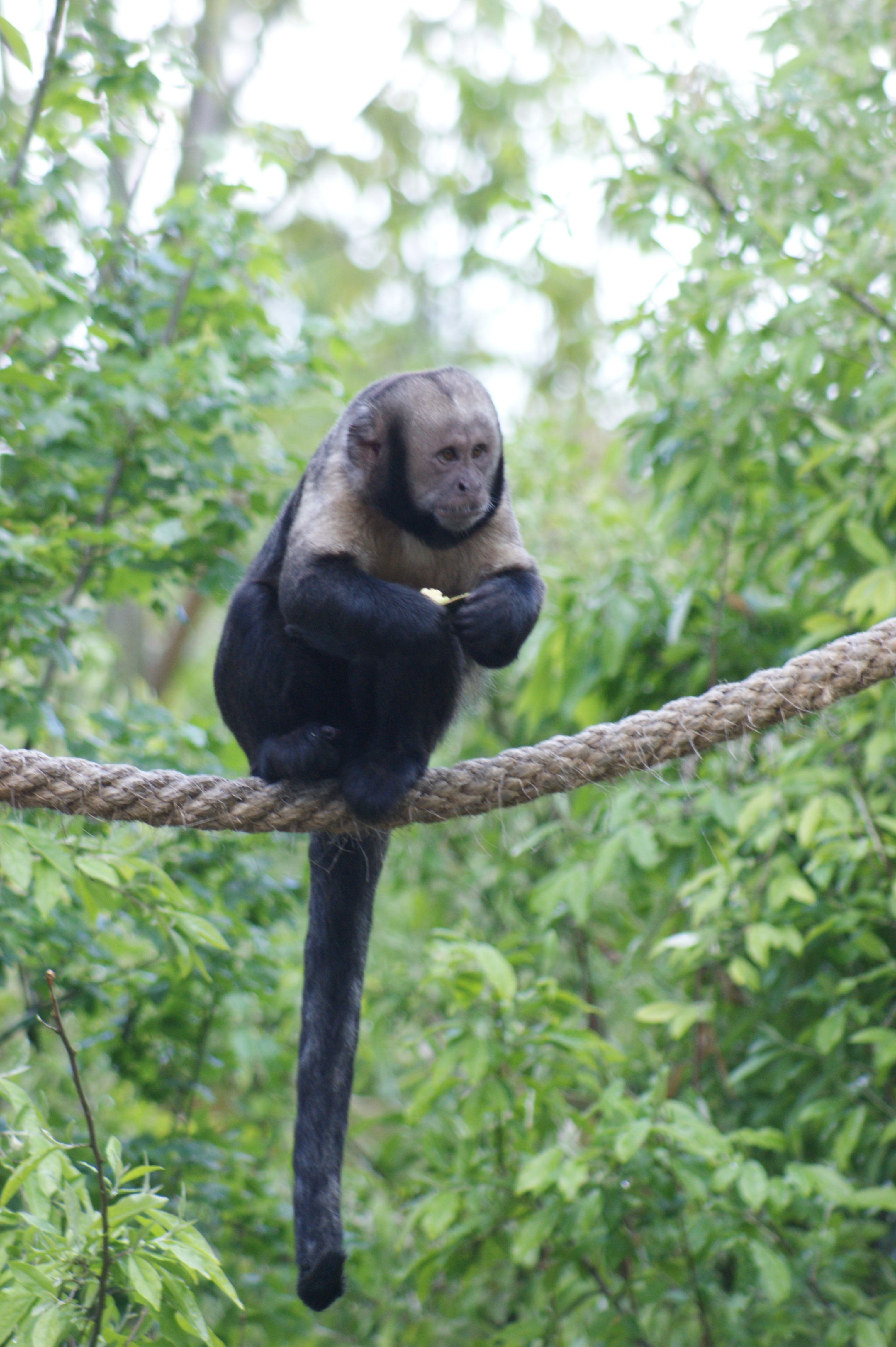 Golden-bellied capuchin (Cebus apella xanthosternos) at Zoo Zürich